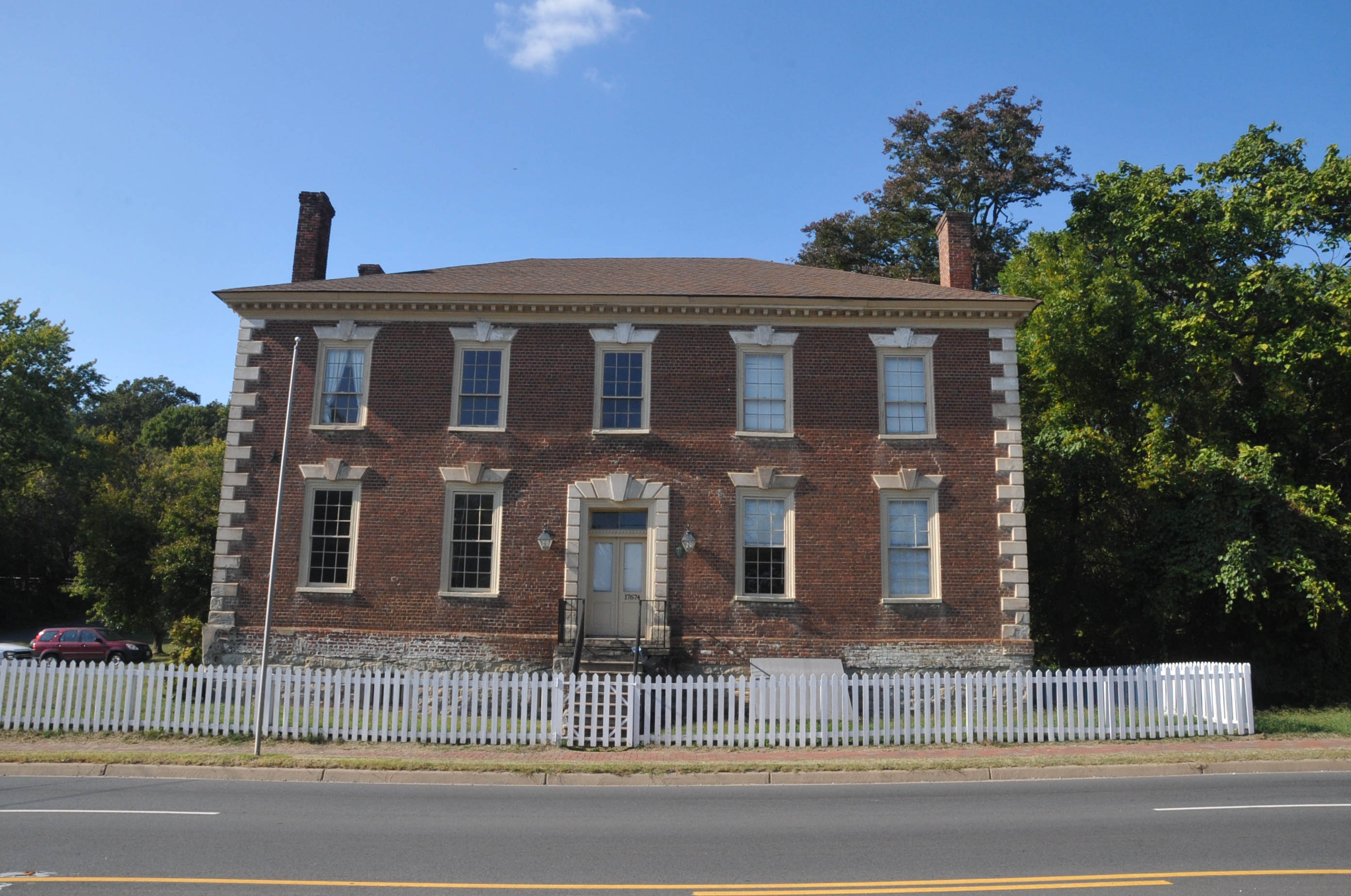 AKA WILLIAMS ORDINARY; CIRCA 1760; ALSO KNOWN AS LOVE’S TAVERN